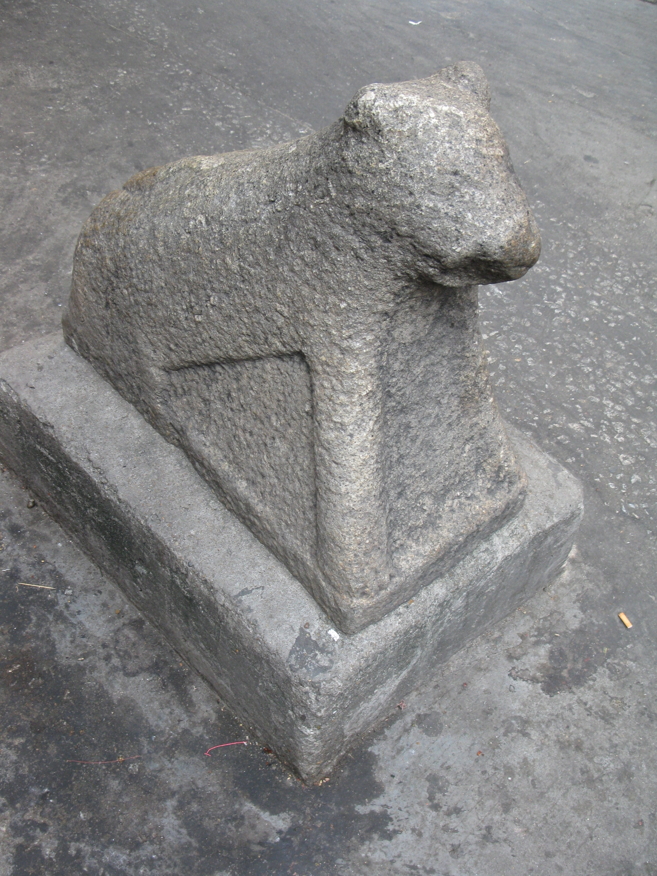 this stone hound is one of the remaining treasures in Shipai Village that signify peace and auspice.